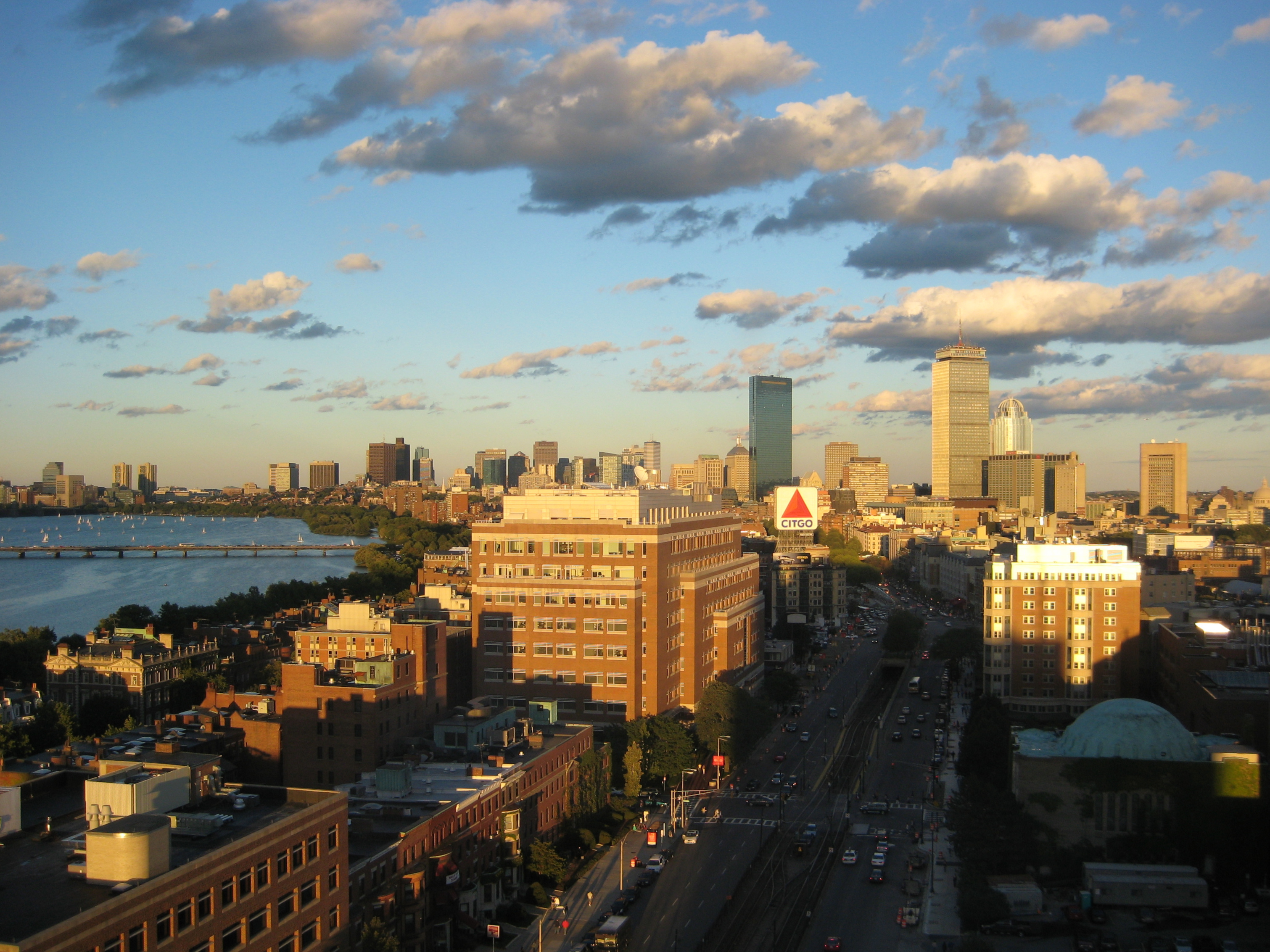 A view of the Boston skyline and Kenmore Square, looking east from the A Tower of Warren Towers